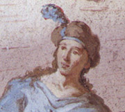 Mattia Bortoloni, self-portrait at age 21. Detail from part of his fresco cycle at Villa Cornaro.